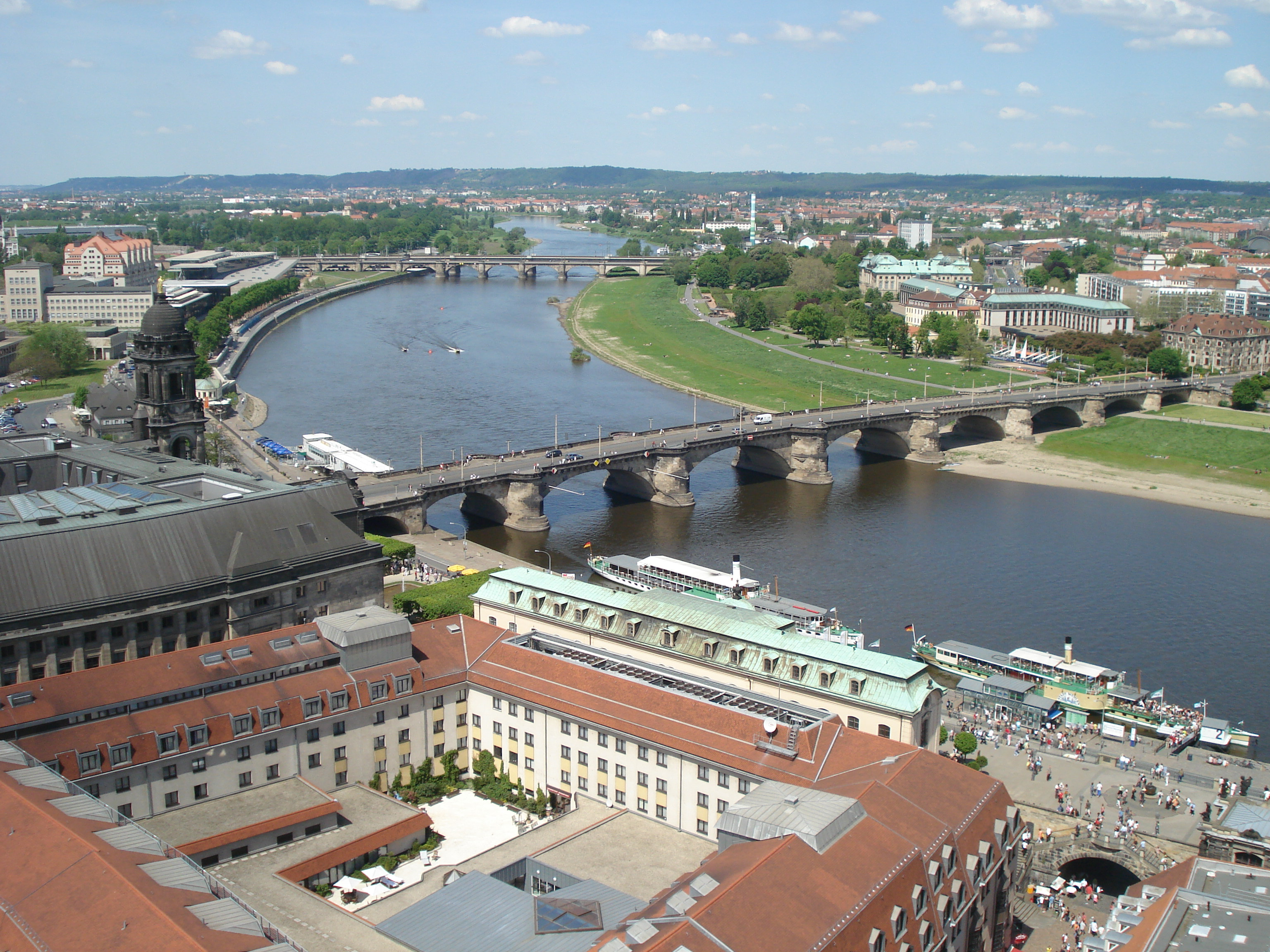 View from the Frauenkirche onto the Augustusbrücke over the Elbe in Dresden